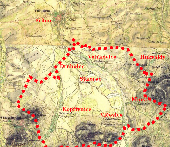 Kopřivnice/Nesseldorf with modern border imposed on an old Austrian map (1836-1852). Borders according to [1]